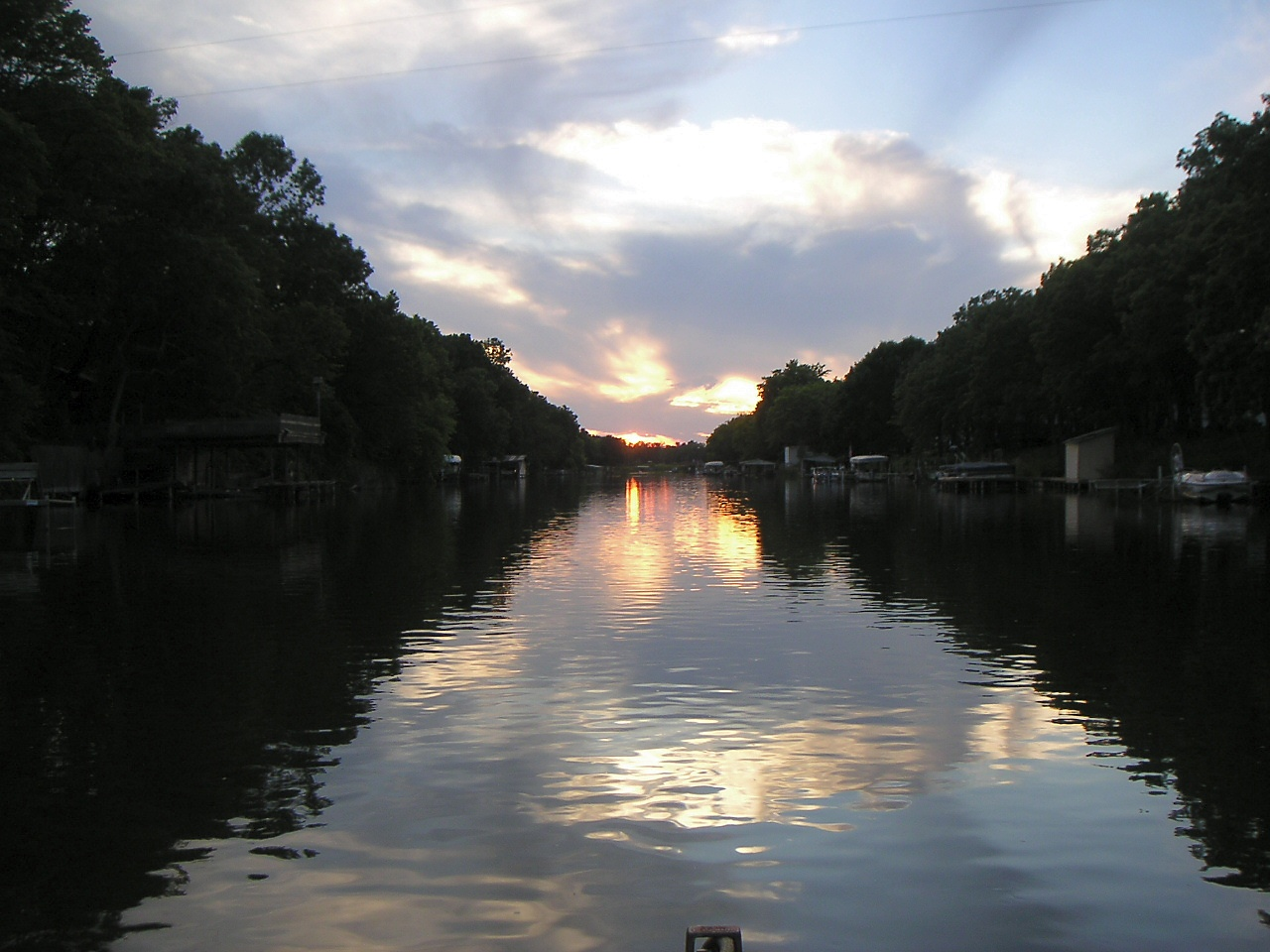 Picture of Otter Tail River, near Ottertail, Minnesota.